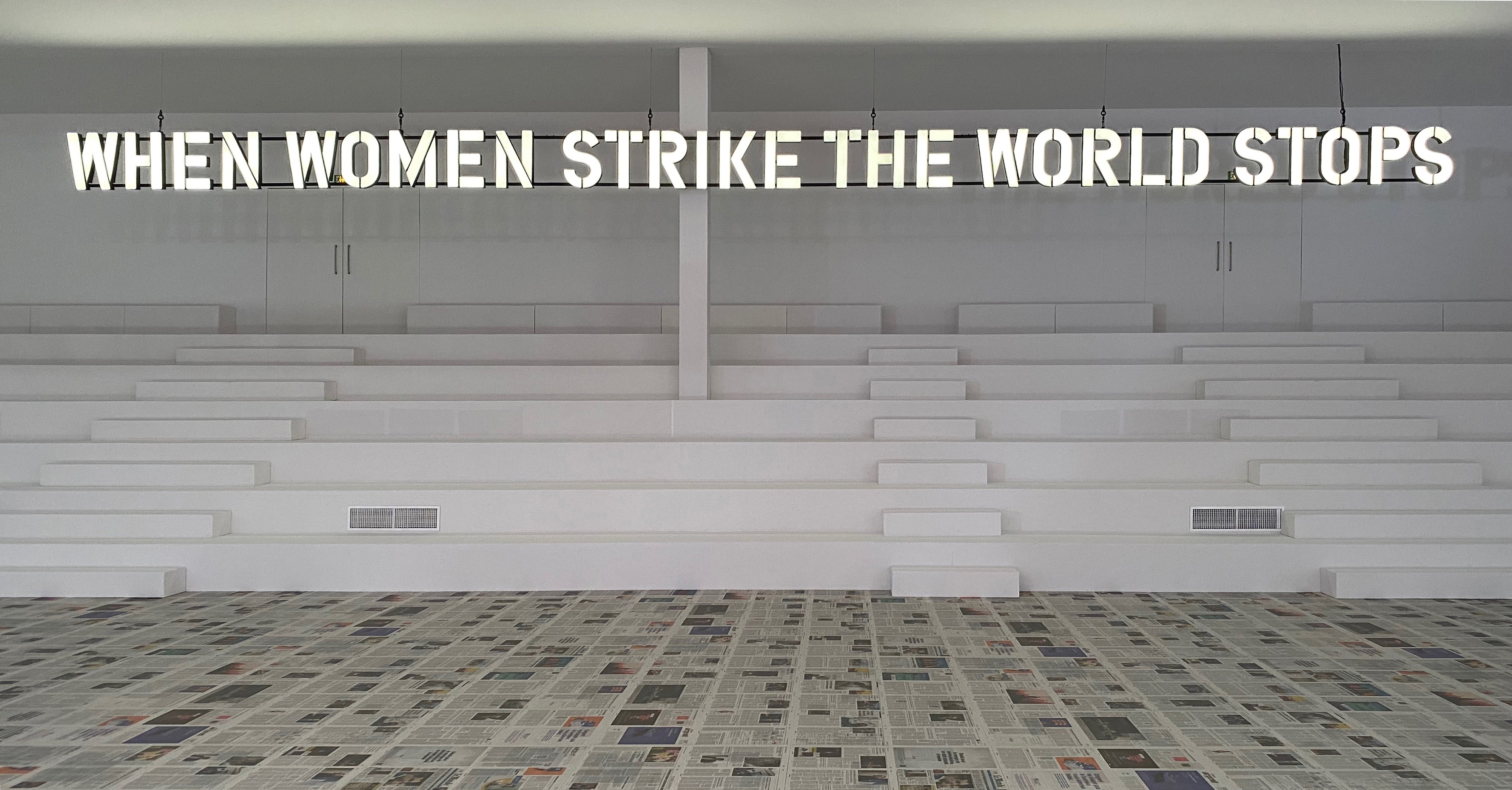 When women strike the world stops, 2020 LED three dimensional letters, framework and support. 60 × 1,441 × 25 cm